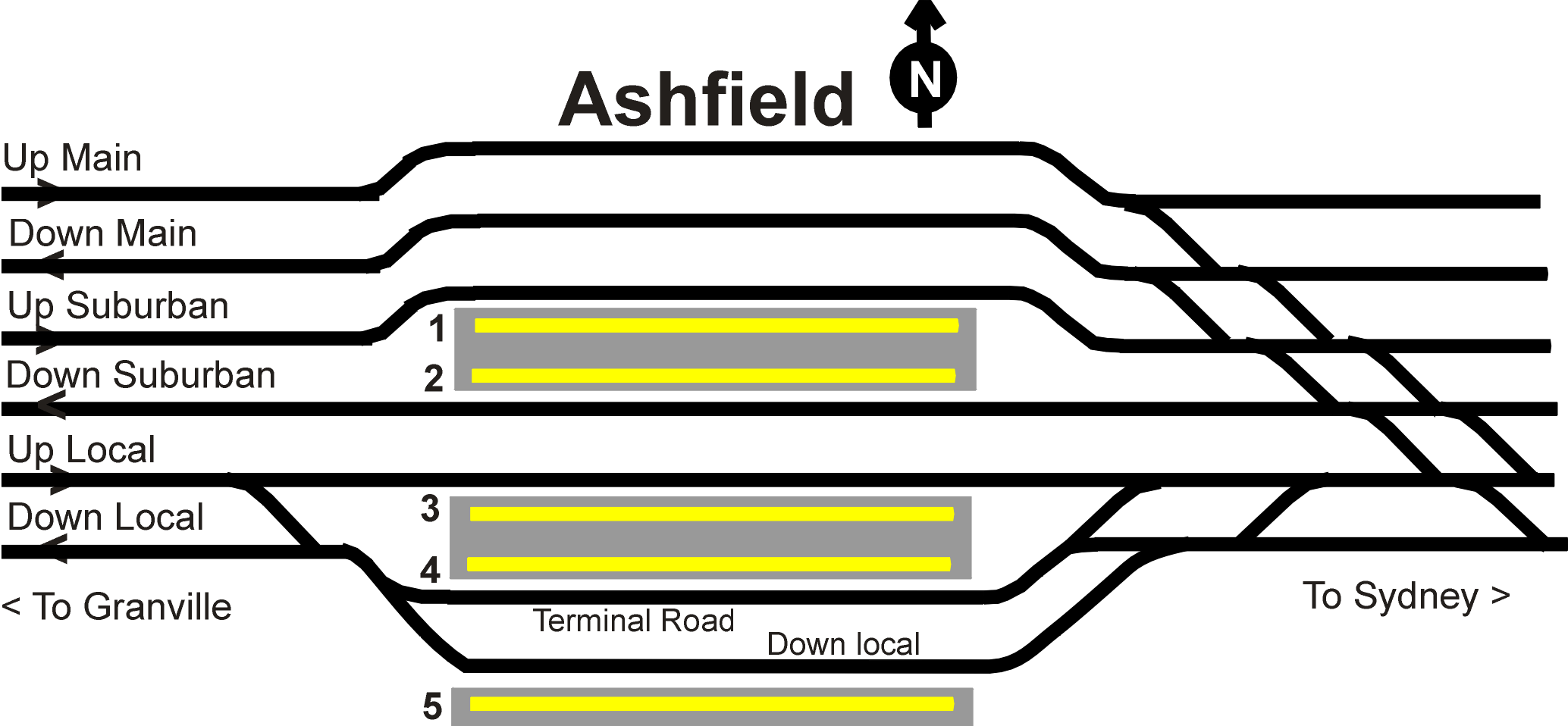 Track layout at Ashfield railway station, Sydney